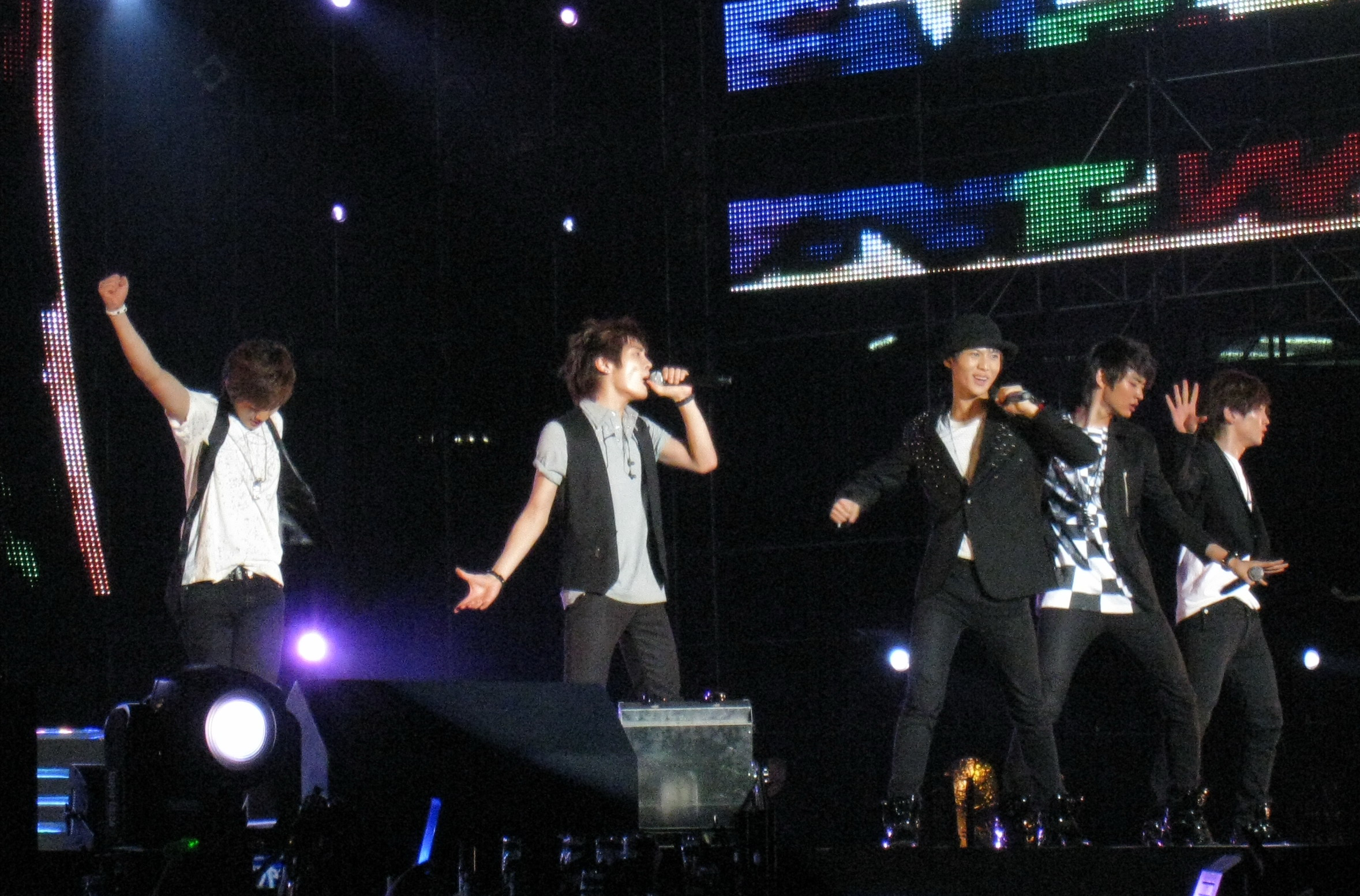 SHINee live at SM Town Live in Bangkok